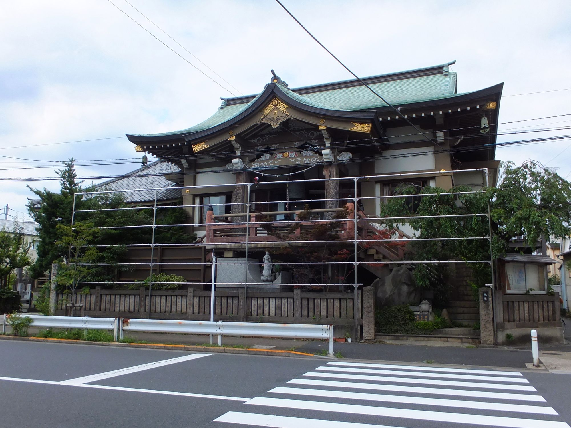 Eishō-in temple in Adachi, Tokyo